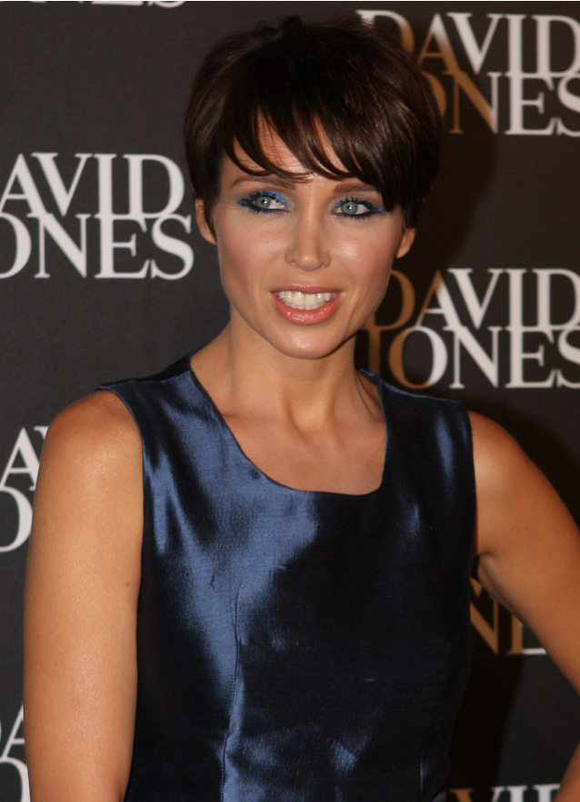 Australian actress and singer Dannii Minogue David Jones Autumn Winter Launch, Sydney, Australia